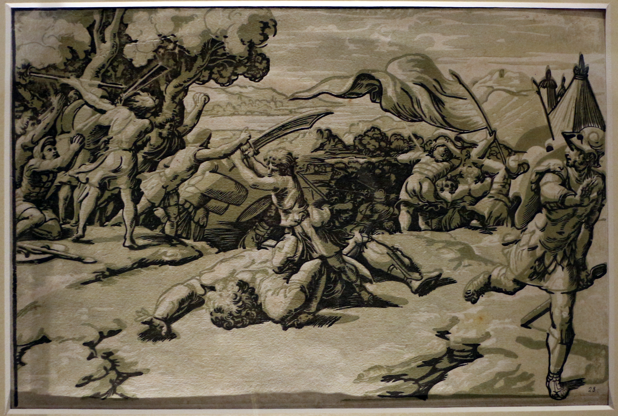 Collections of the Museo Civico (Carpi)